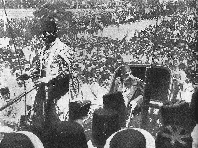 Abdul Hamid II (1842-1918), Sultan of the Ottoman Empire (1876-1909), Photographed during a rare public appearance in 1908